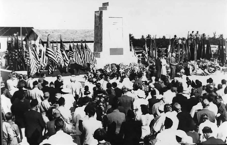 Dedication of the Florida Keys Memorial, in memory of the victims of the 1935 Labor Day hurricane